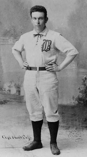 Portrait of baseball player Hugh Duffy